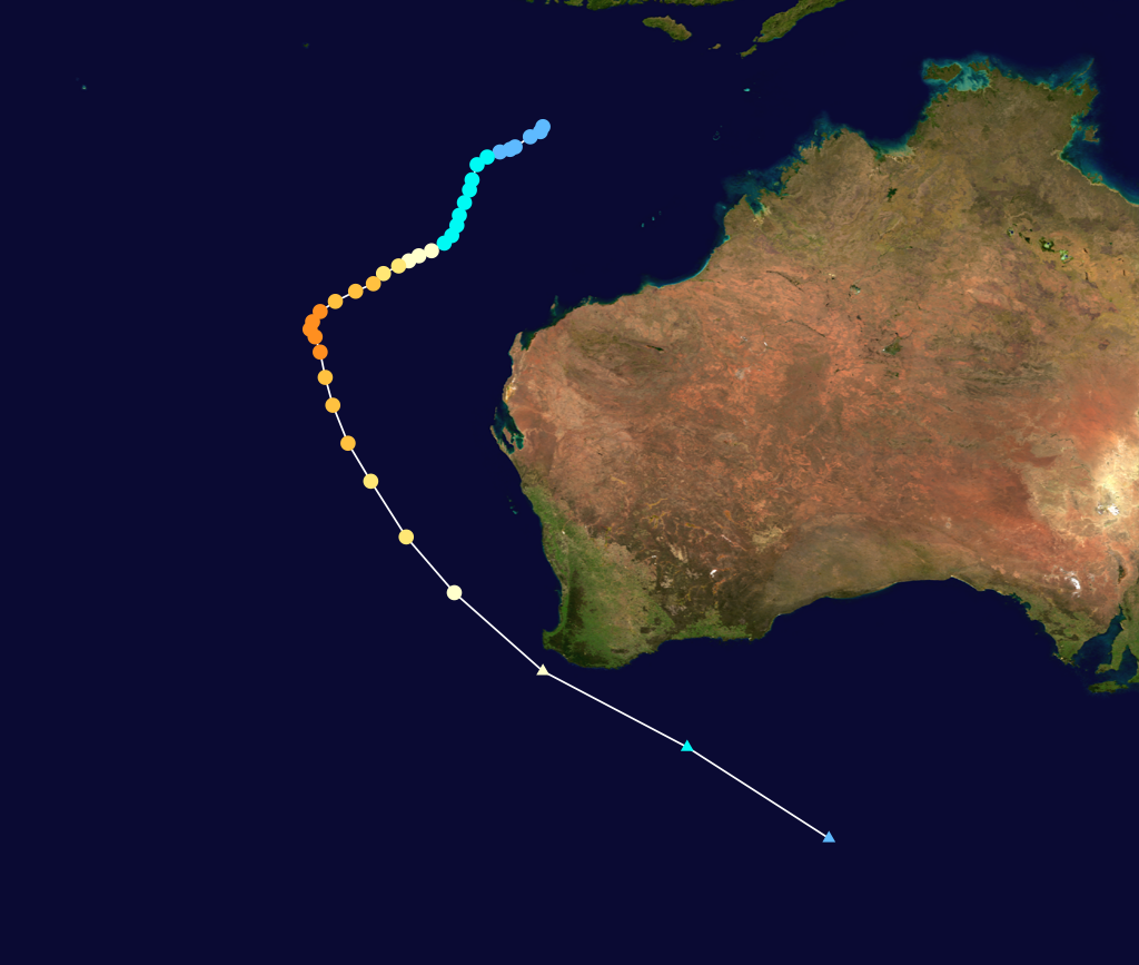 Cyclone Alby (1978) track. Uses the color scheme from the Saffir-Simpson Hurricane Scale.